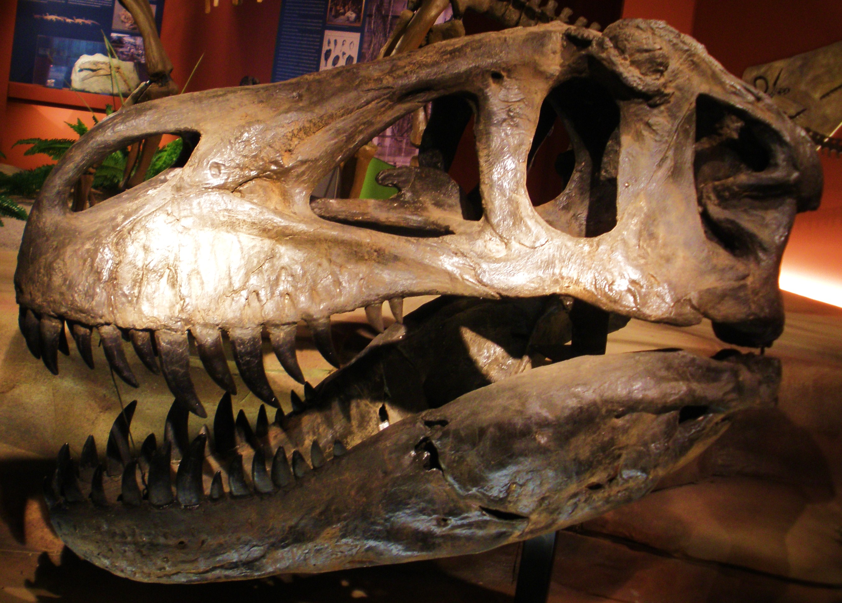 fossil of Torvosaurus